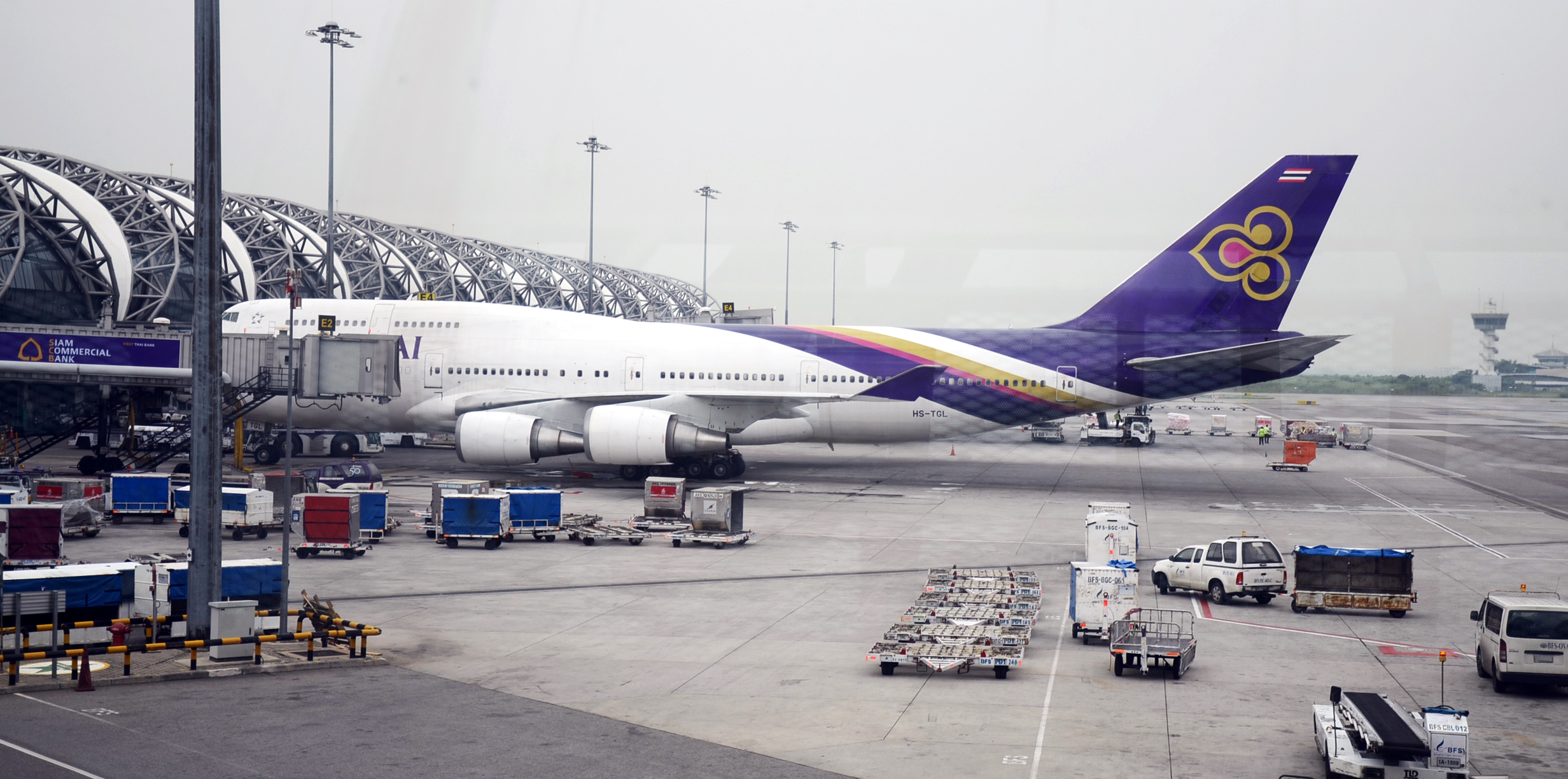 Thai Airways at Suvarnabhumi Airport, Bangkok 2013